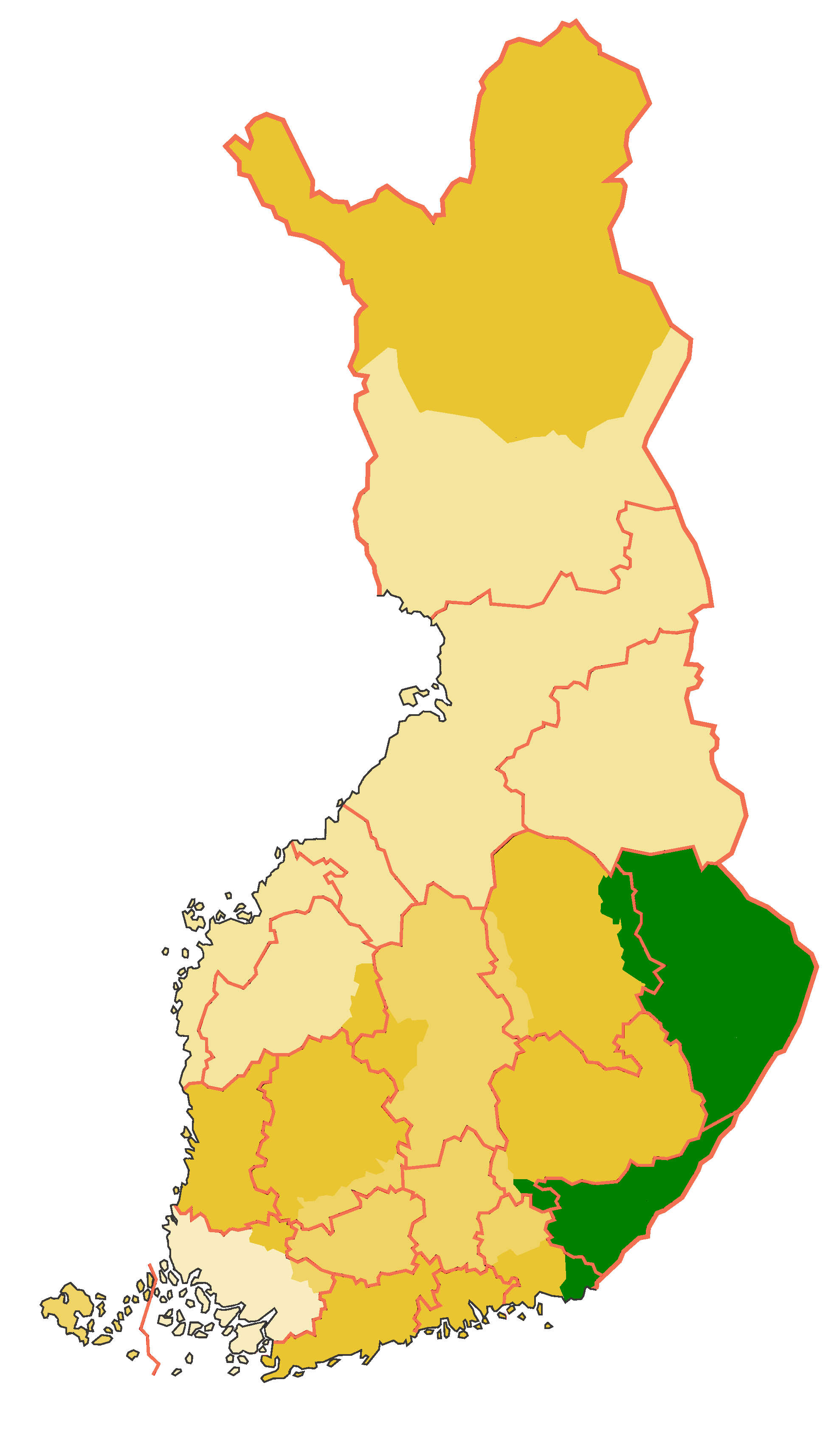 Historical province of Karelia in Finland